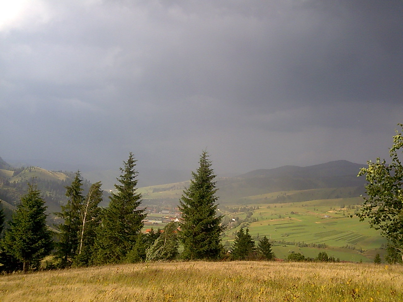 Gyimesfelsőlok (Lunca de Sus) Landscape from the Őrhegy (Guardhill)